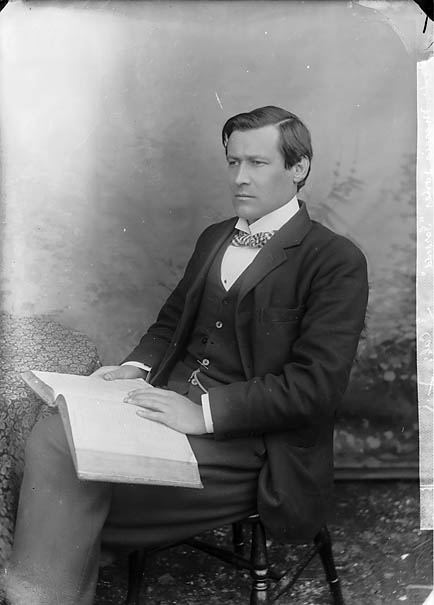 Professor John Morris-Jones Teitl Cymraeg/Welsh title: Yr Athro John Morris-Jones Ffotograffydd/Photographer: John Thomas (1838-1905) Dyddiad/Date: [ca. 1885] Cyfrwng/Medium: Negydd gwydr / Glass negative Maint/Dimensions: 16.5 x 12 cm. Cyfeiriad/Reference: jth02727 Rhif cofnod / Record no.: 3363667 Rhagor o wybodaeth am gasgliad John Thomas yn Llyfrgell Genedlaethol Cymru More information about the John Thomas Collection at the National Library of Wales Mae ffotograffau John Thomas hefyd yn rhan o Broject Europeana Libraries John Thomas' photographs also form part of the Europeana Libraries Project.